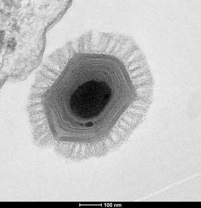 Megavirus particle. Thin section, electron microscopy